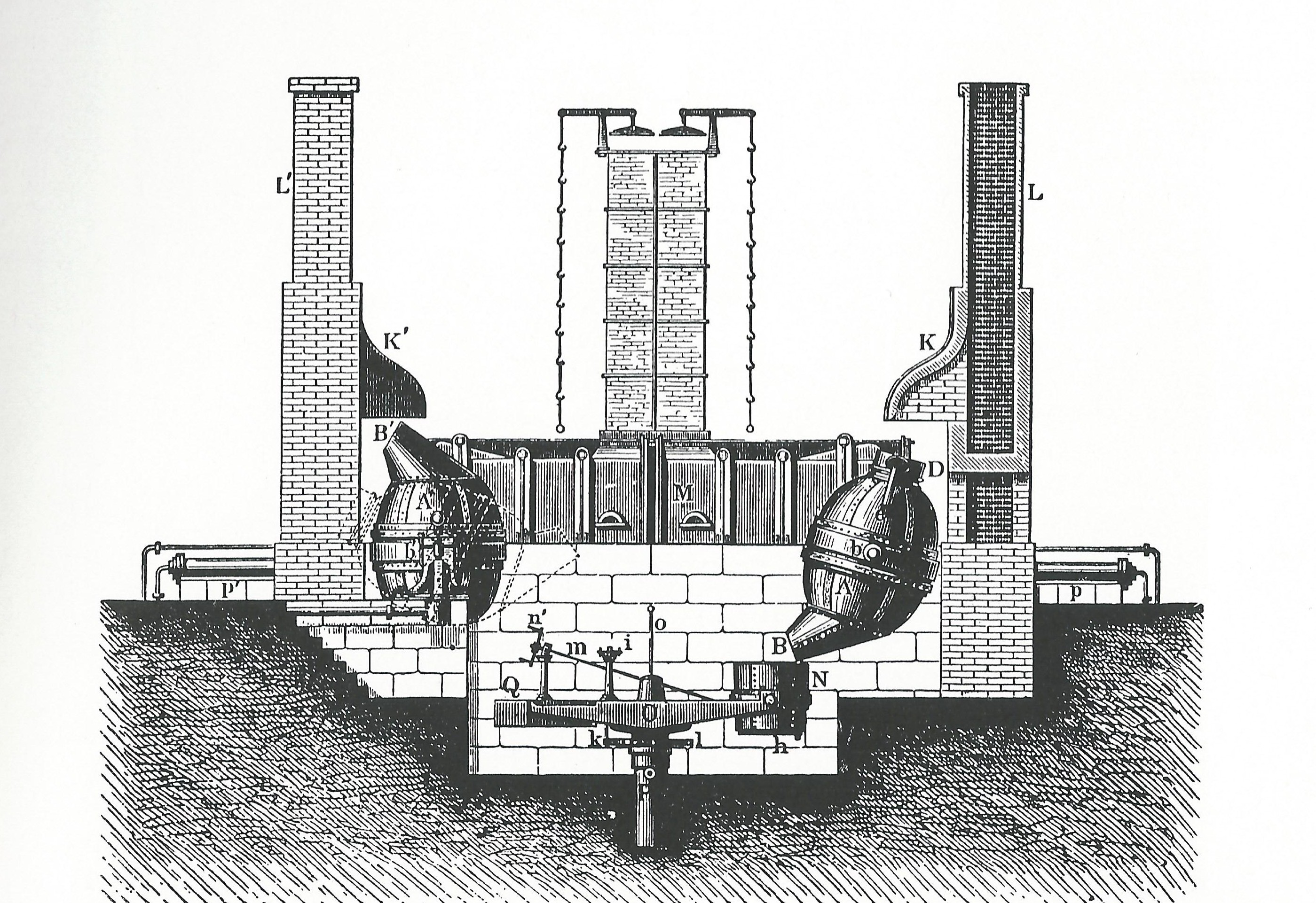 Disposition of Bessemer converters